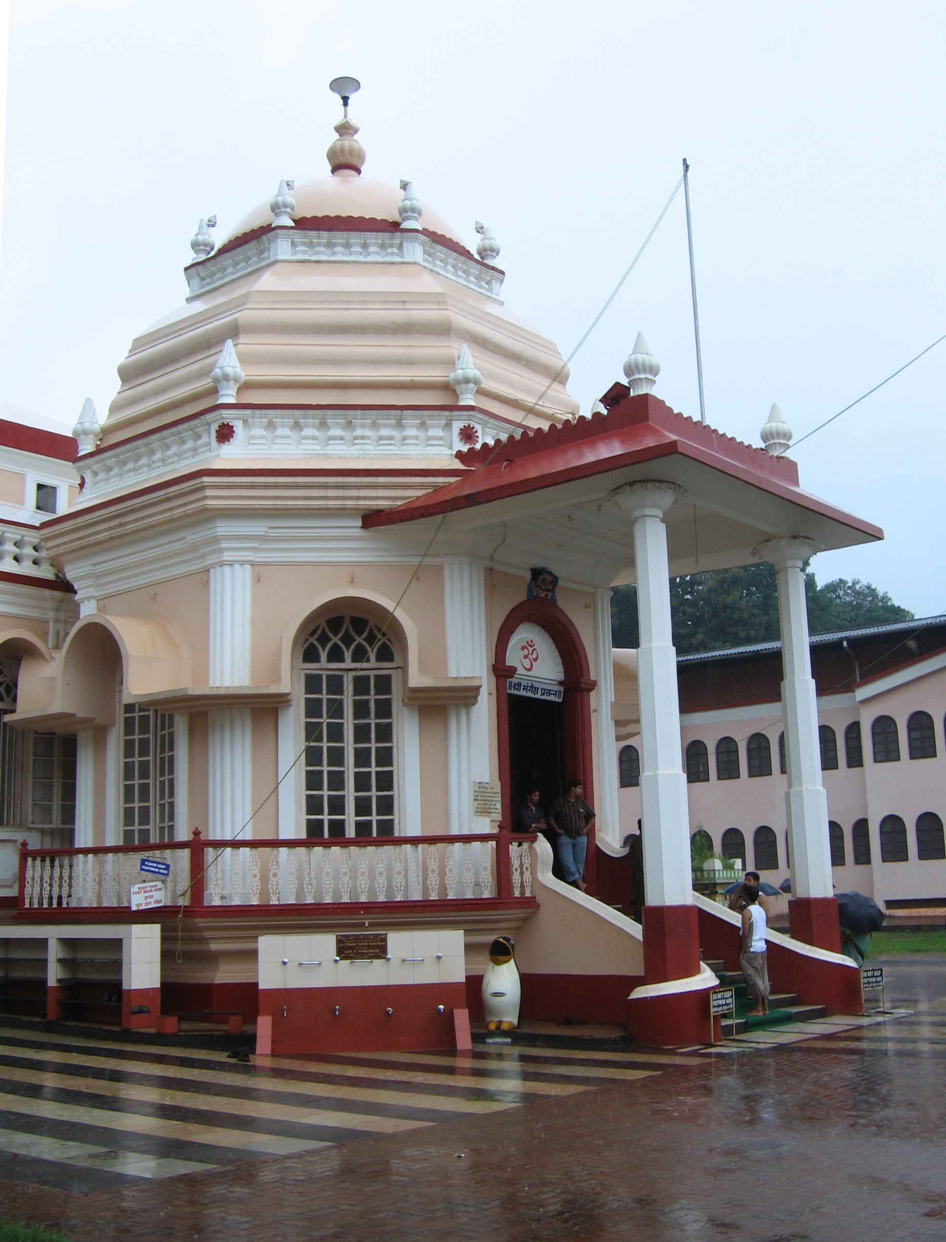 Goa - Shri Mangueshi temple